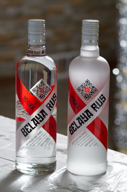 Belaya Rus Vodka bottles